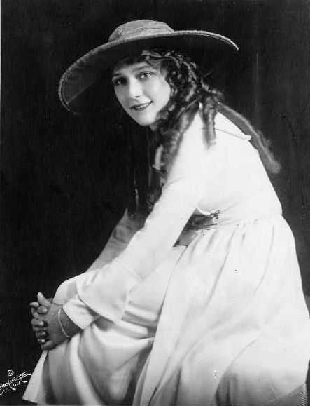 Mary Pickford, three-quarter length portrait, seated, facing left